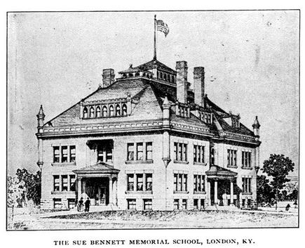 This image of the Sue Bennett Memorial School is snipped from page 122 of Arabel Wilbur Alexander, _Life and Work of Lucinda B. Helm: Founder of the Woman's Parsonage and Home Mission Society of the M.E. Church, South_ (Nashville, TN: Publishing House of the Methodist Episcopal Church, South, 1898). In honor of her older sister who dreamed of this initiative in the south-eastern mountains of Kentucky, Belle Harris Bennett of Richmond, Kentucky led the Southern Methodist Women's Home Mission Society to get the funding and garnered the the good will of the local communities in the area to assure its success.